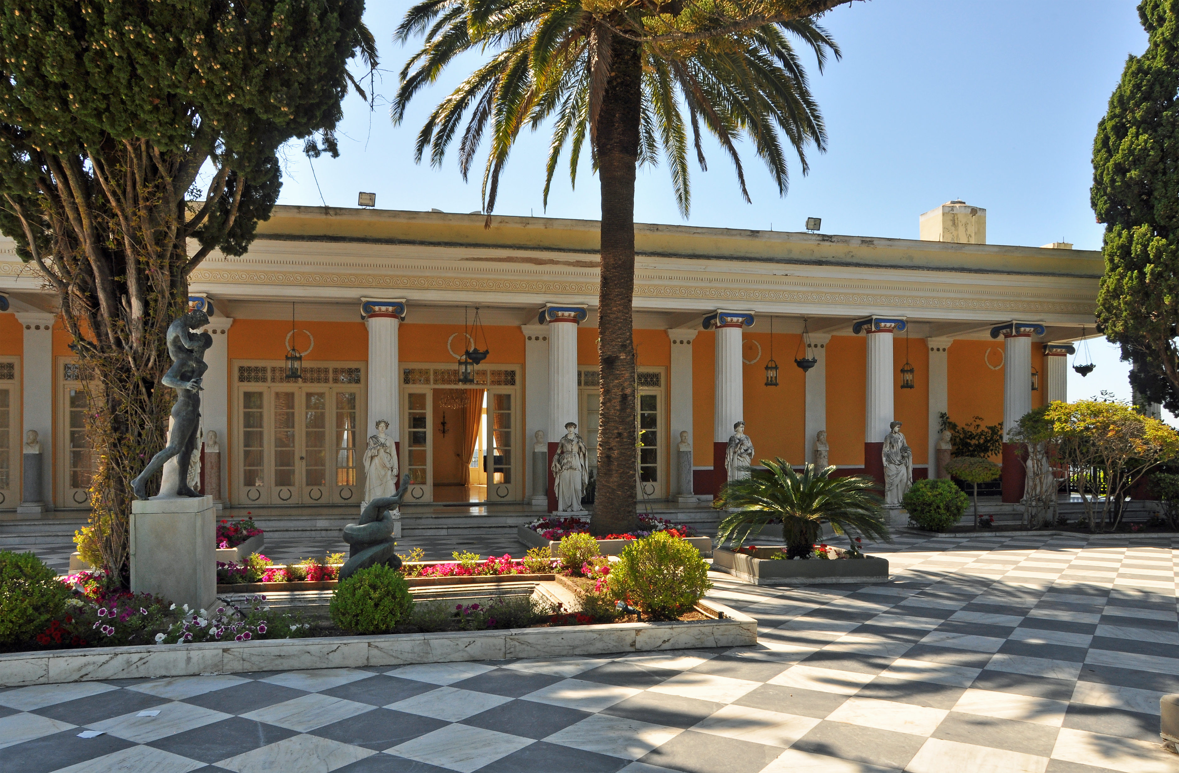 Corfu (Greece): the terrace of the Achilleion